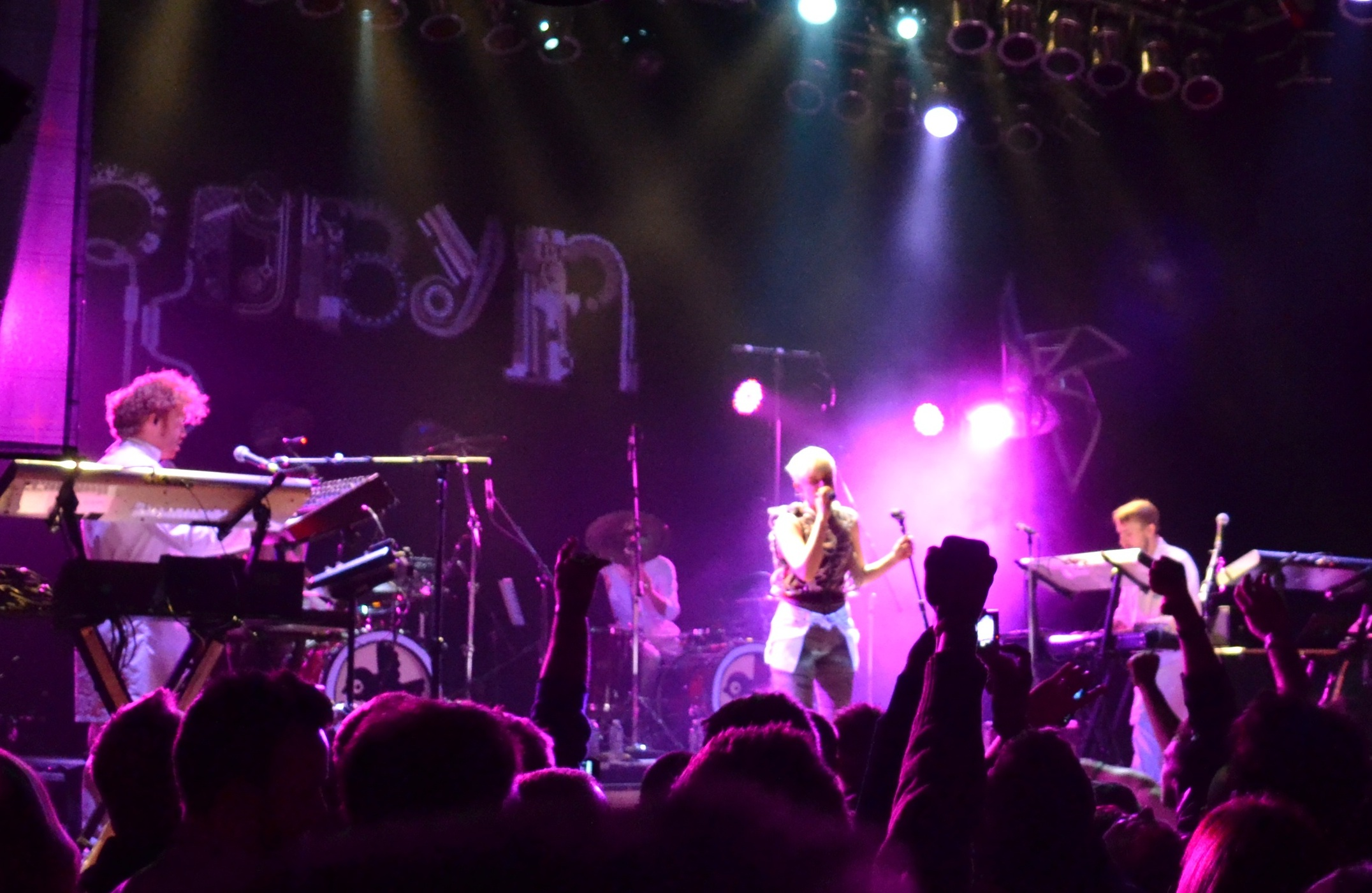 Robyn peforming at House of Blues, Cleveland, OH